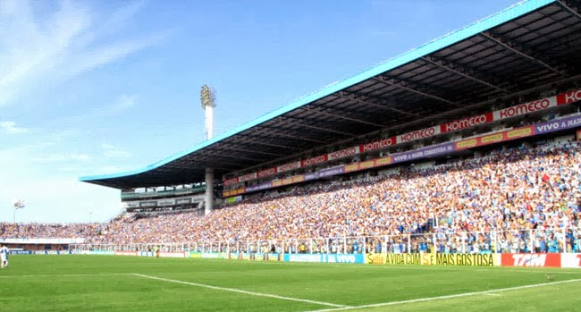 Torcida do Avaí. Ressacada lotada em 2010